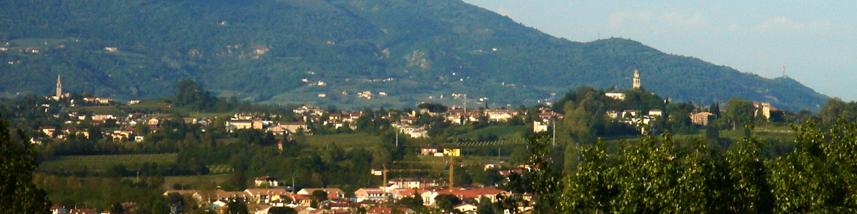 Panoramic view of San Martino di Colle Umberto (left) and Colle Umberto.